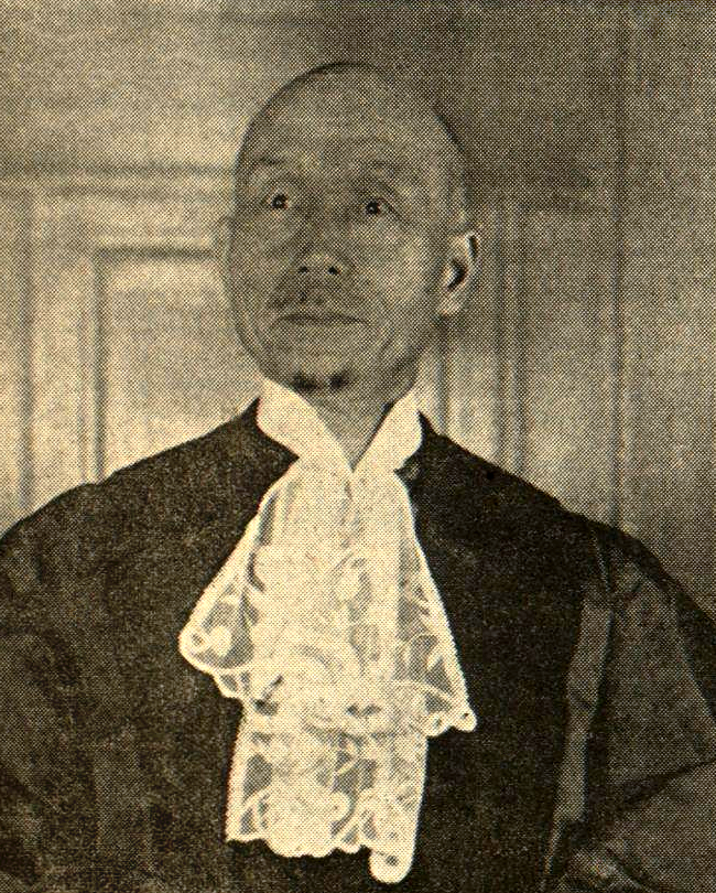 Mineichirō Adachi (安達 峰一郎 Adachi Mineichirō, July 29, 1870 - December 28, 1934) was a Japanese legal expert and President of the Permanent Court of International Justice at the Hague from 1931 until 1934.